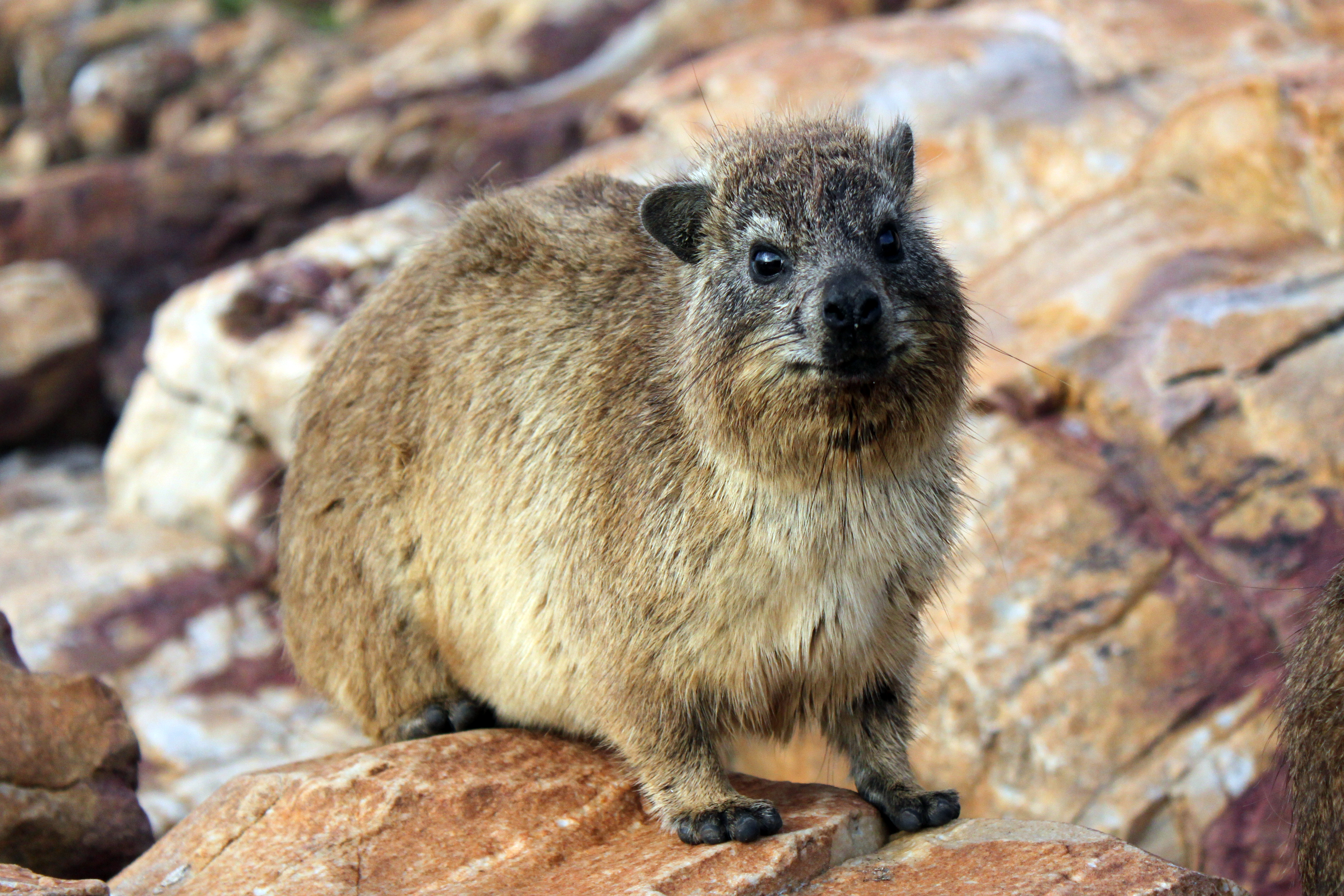 Dassie in Mossel Bay, South Africa